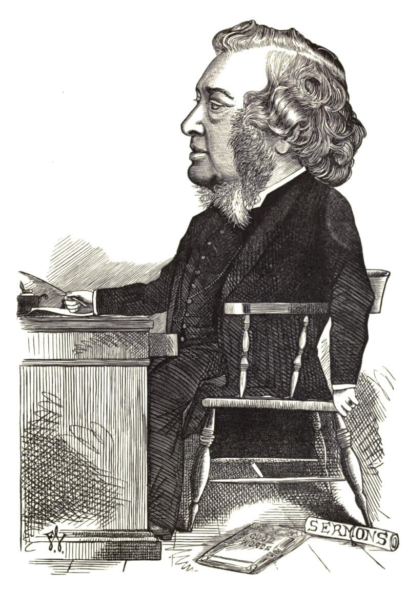 Norman Macleod. One of Her Majesty's chaplains. from Cartoon portraits and biographical sketches of men of the day